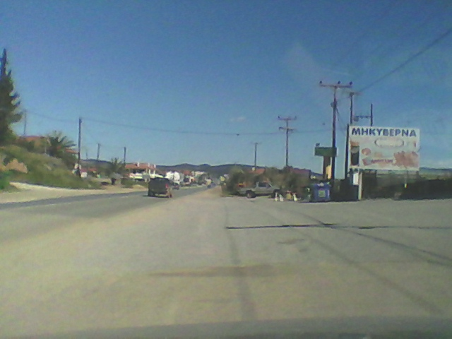 Kalyves Polygyrou, Greece, motorway as seen from tte west